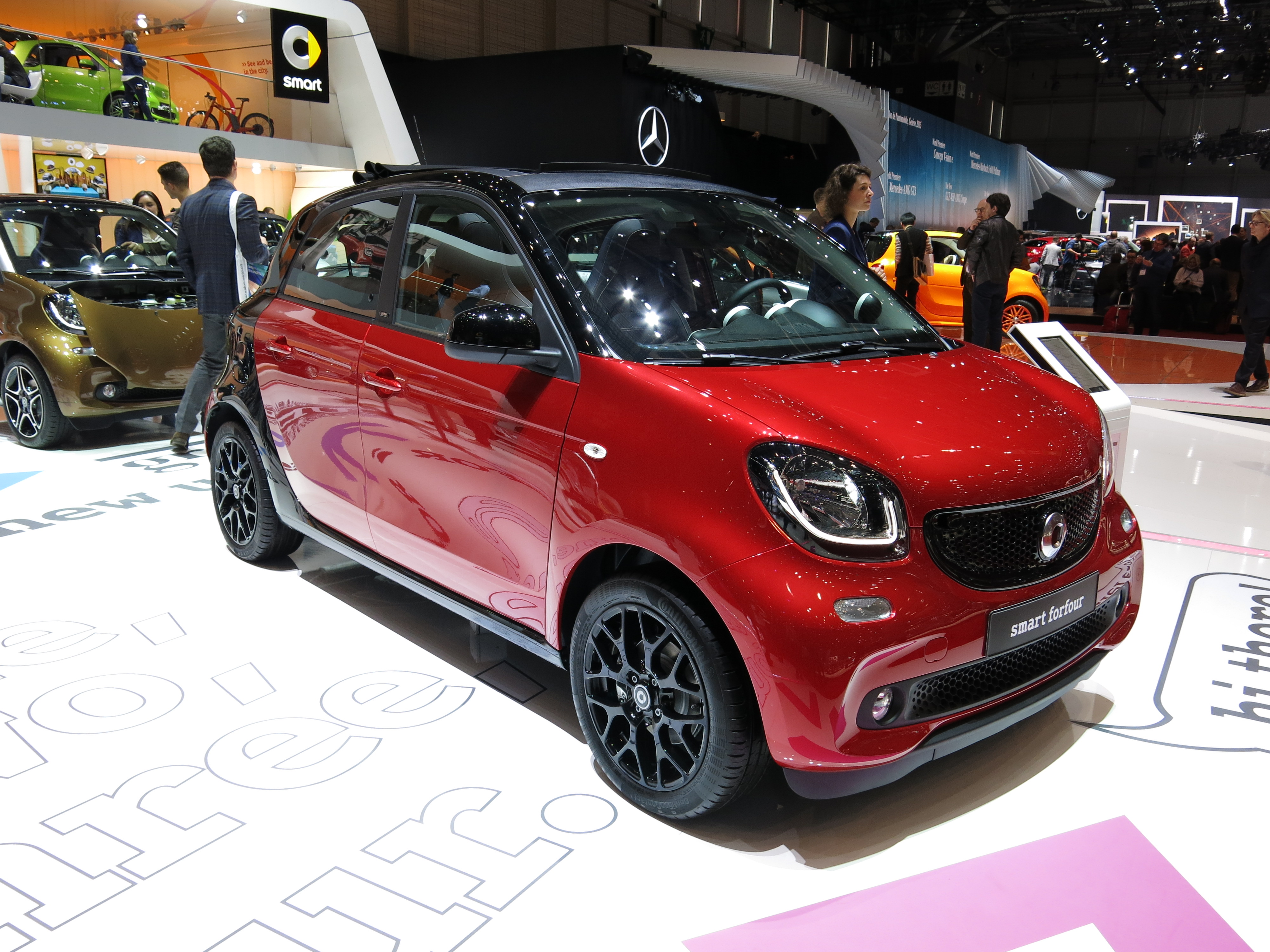 Geneva Motor Show 2015 (photo taken on the first press day)